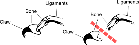 A picture showing declawing